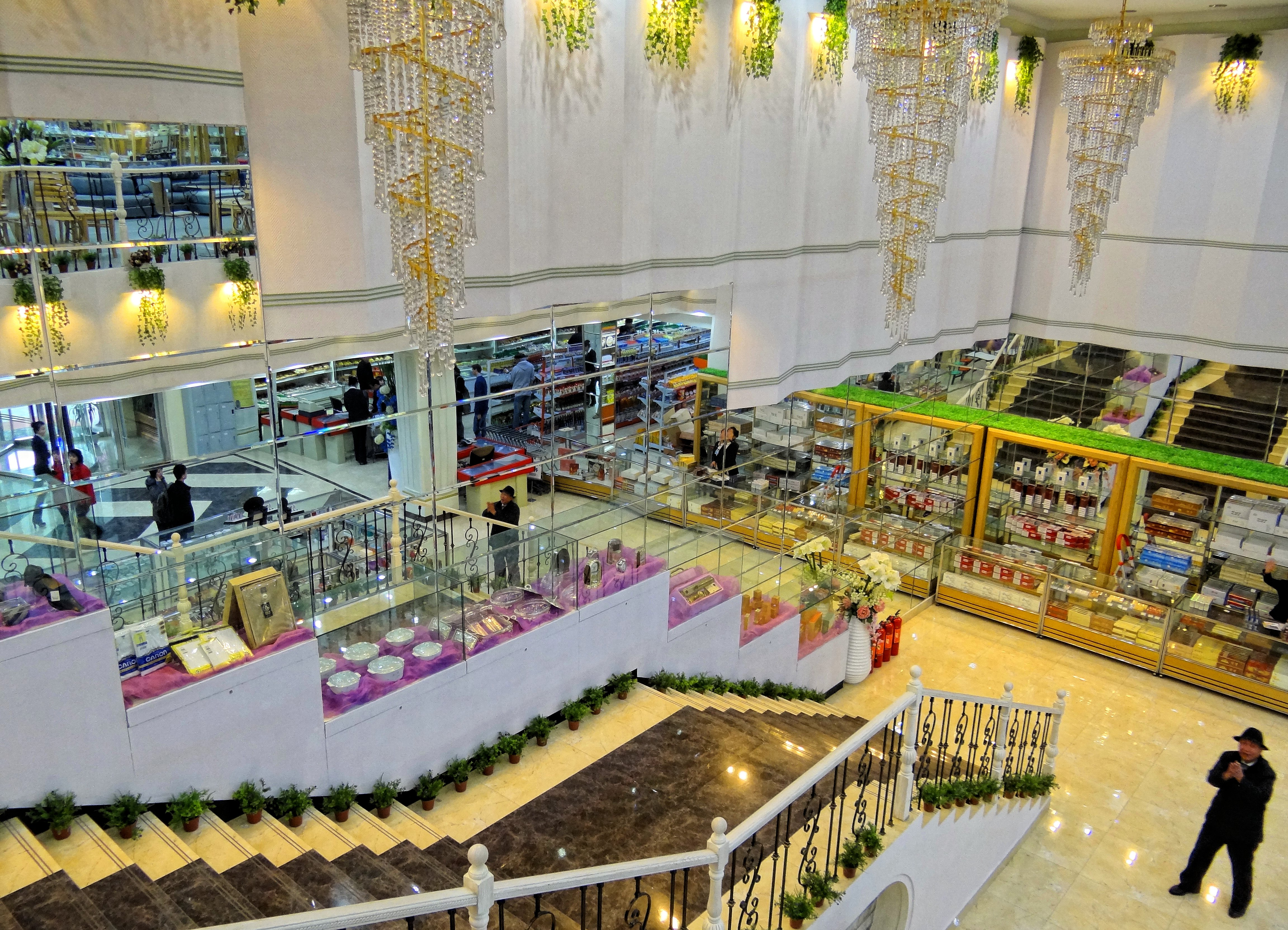 Photo taken from the first floor down towards the ground floor at Pyongyang Department Store No. 1, also known as "Paradise Department Store".